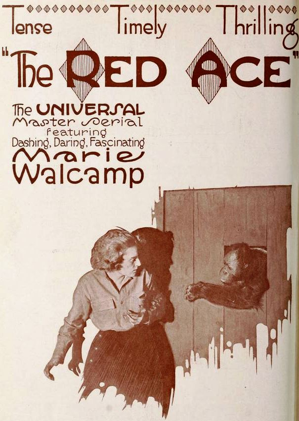 Advertisement for the American film serial The Red Ace (1917) with Marie Walcamp, on the inside front cover of the September 22, 1917 Exhibitors Herald.